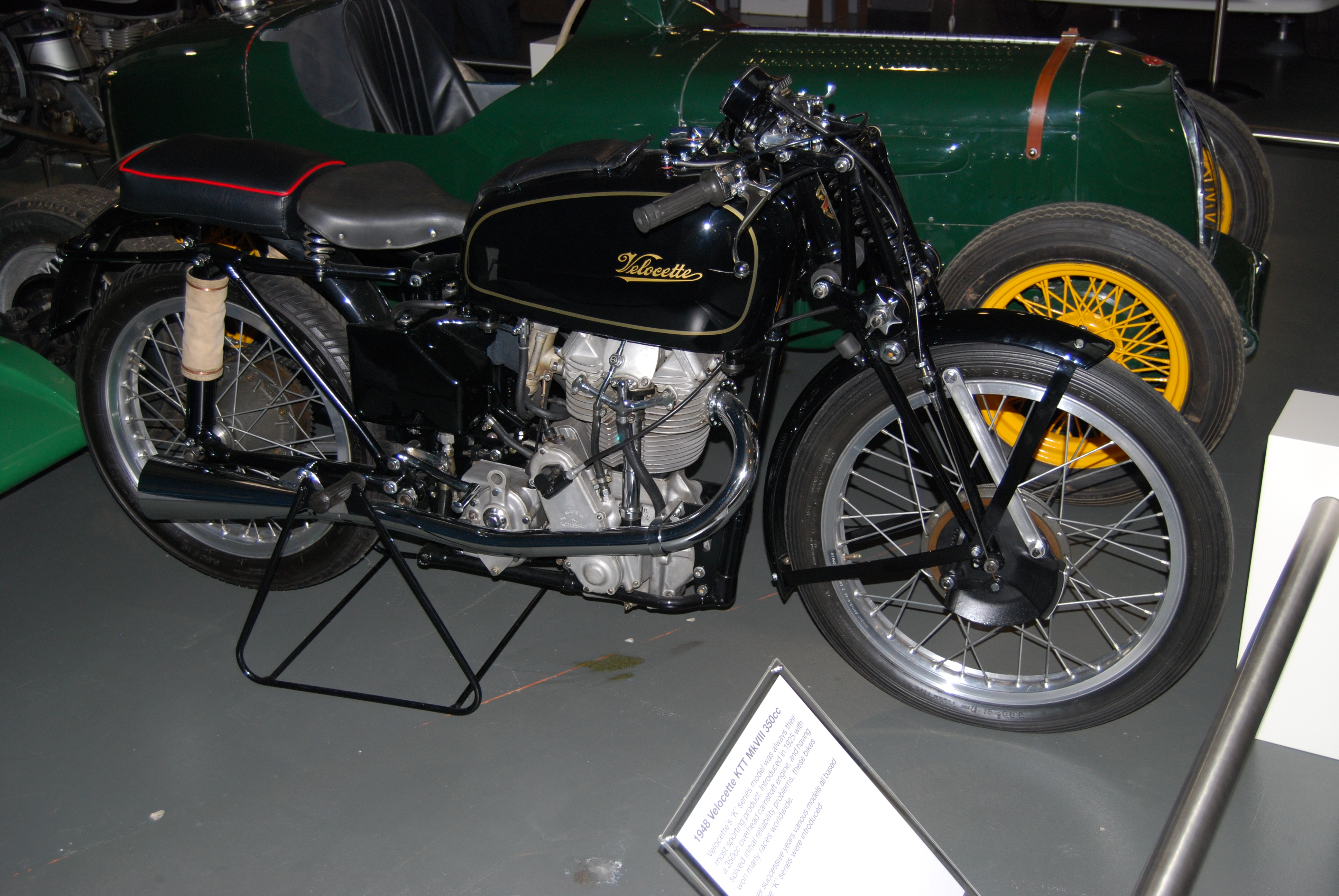 1948 Velocette KTT Mk VIII Motorcycle on display at the National Motor Museum, Birdwood, South Australia